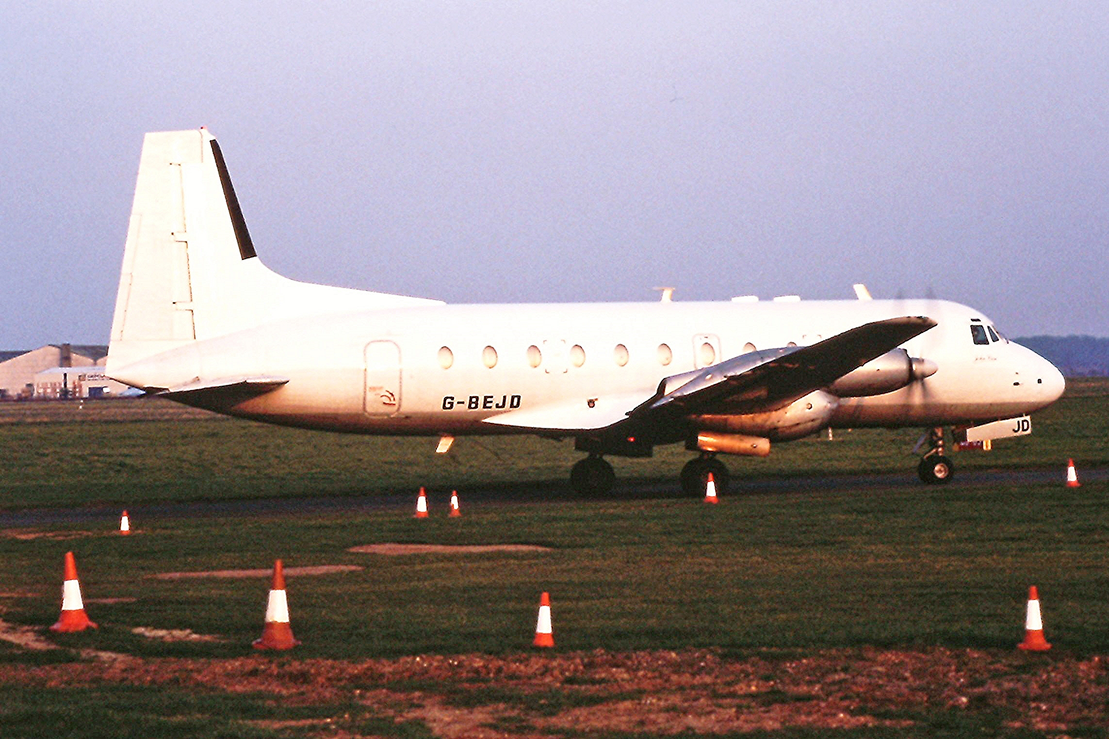 G-BEJD Avro 748 series 1 Janes Aviation Coventry 15-03-1993